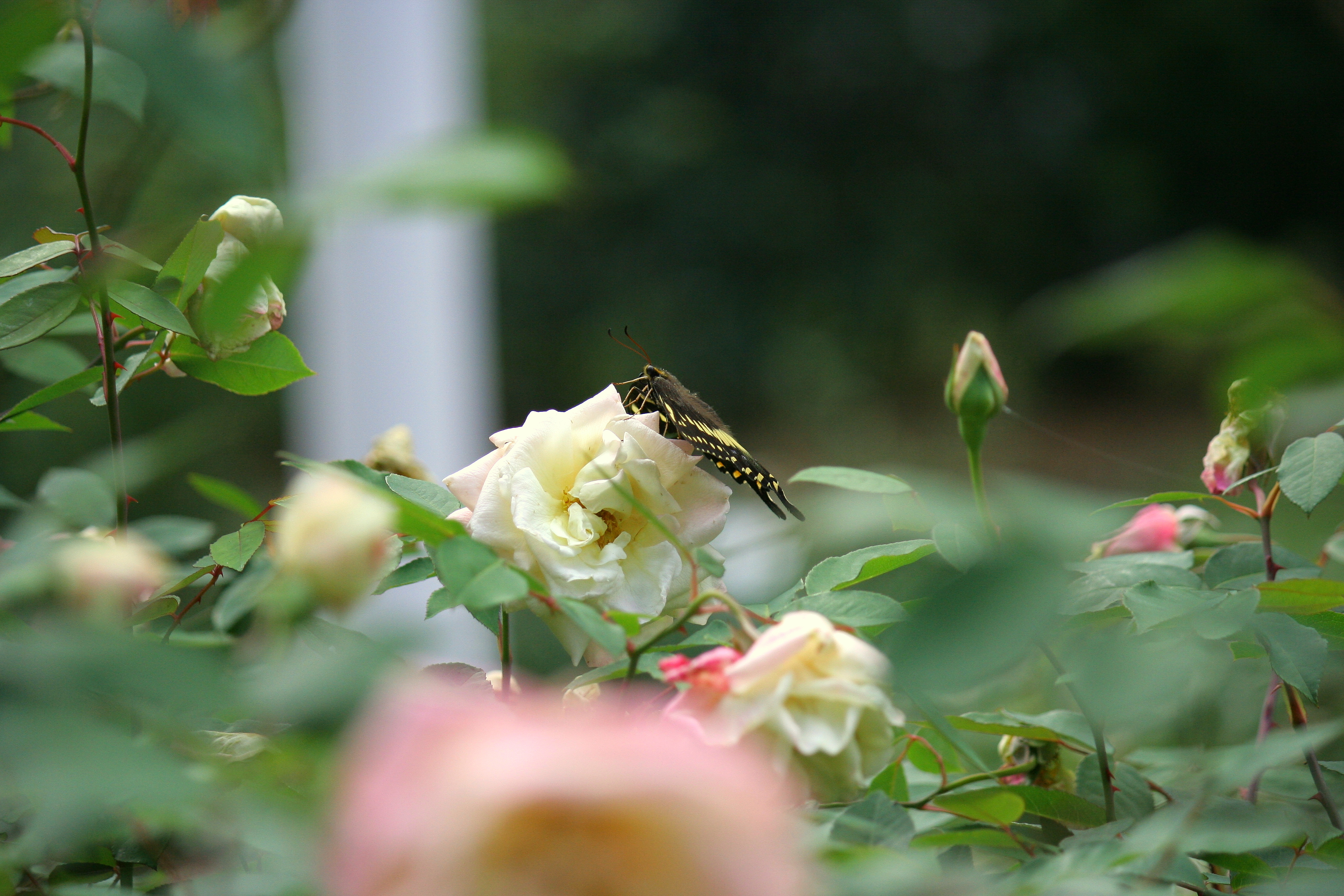 Swallowtail butterfly of the subfamily Papilioninae resting on a rose